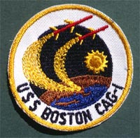 Patch of the USS Boston (CA-69/CAG-1/CA-69)